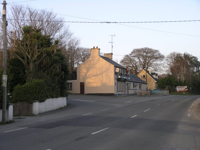 Cross roads in Ballygarvan